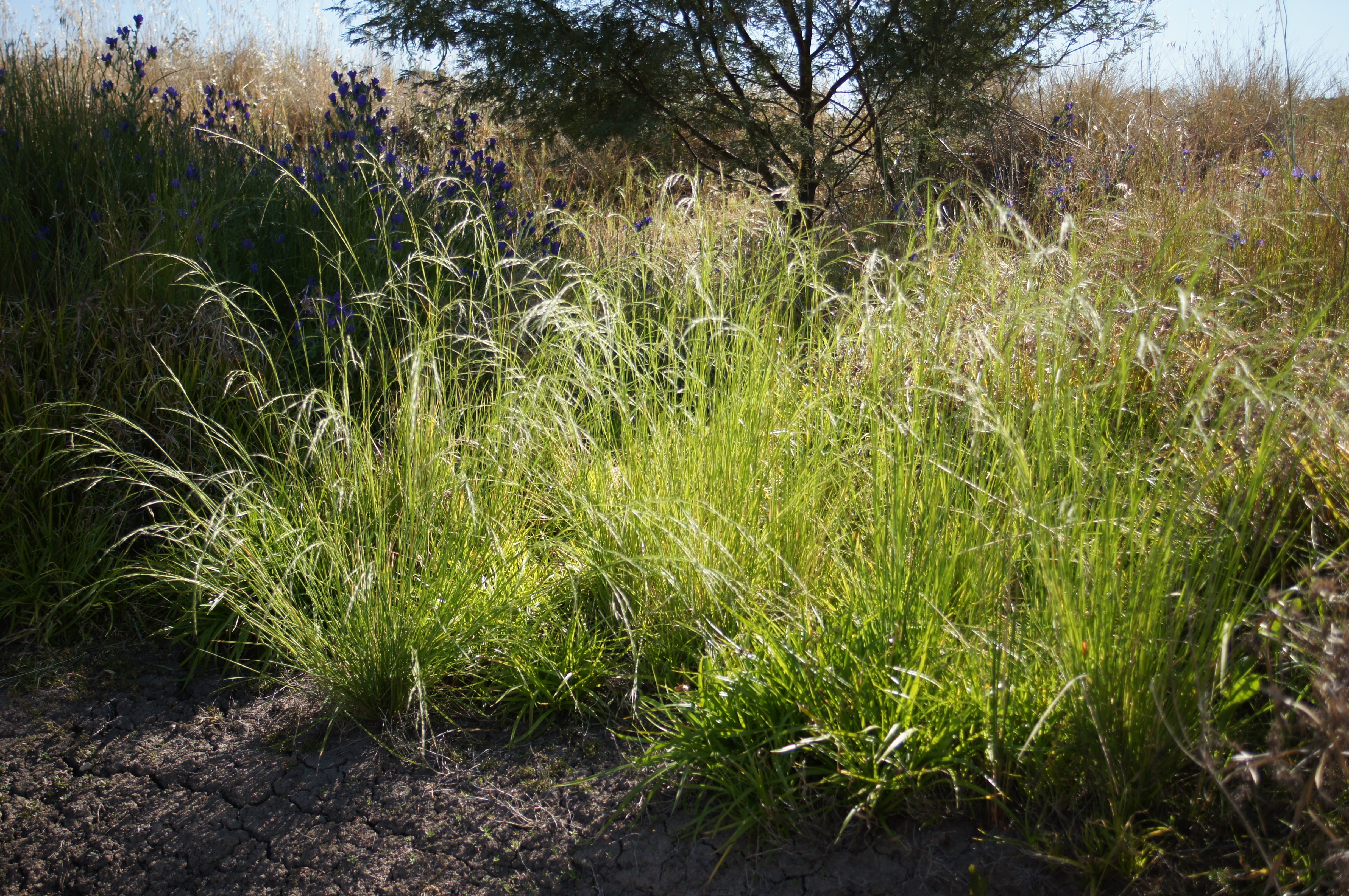 Amphibromus nervosus